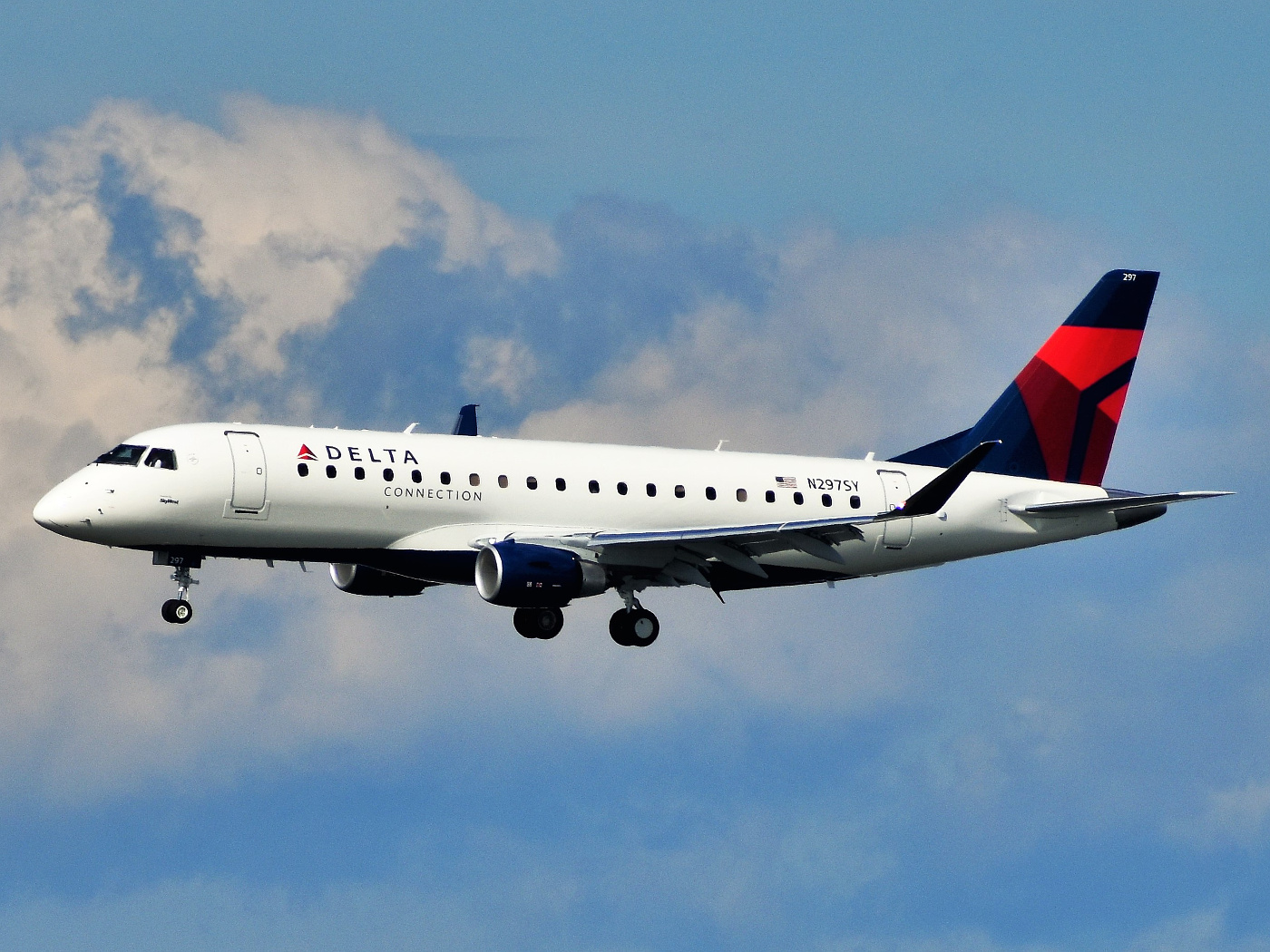 A Delta Connection Embraer 175LR (ERJ-175LR or ERJ-170-200LR) is on final approach to LaGuardia Airport